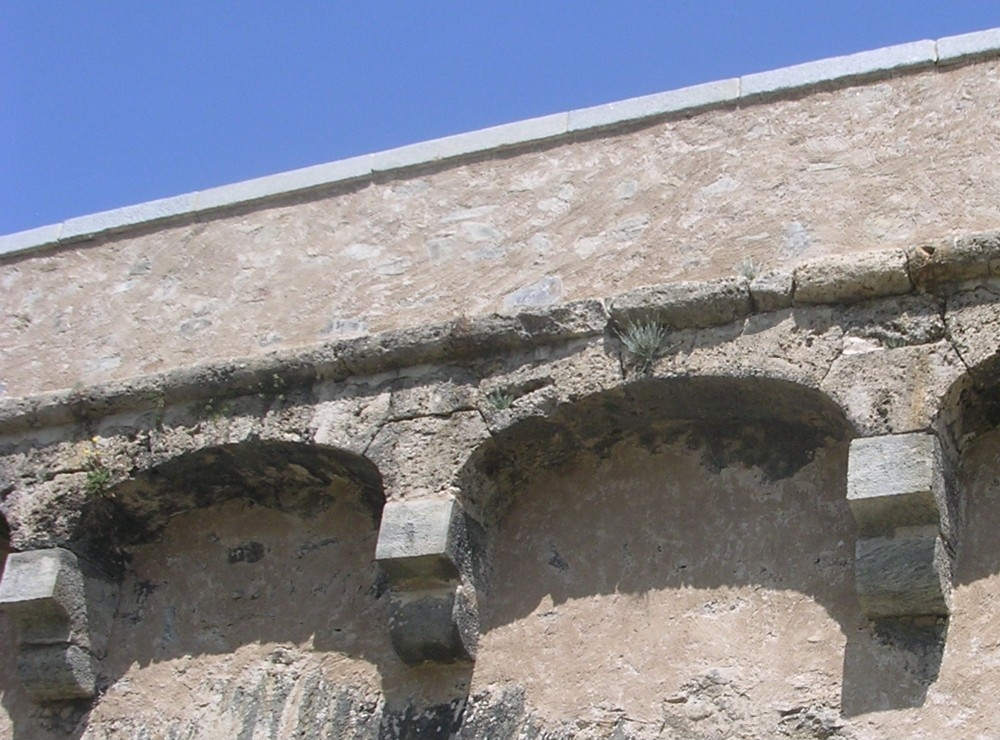 Corbels made with the marble quarried in Corti, and arches made with limestone Corsu: Testimoni, forti cum’è acciaiu, tagliati in marmaru curtinese, e arcature in tofu